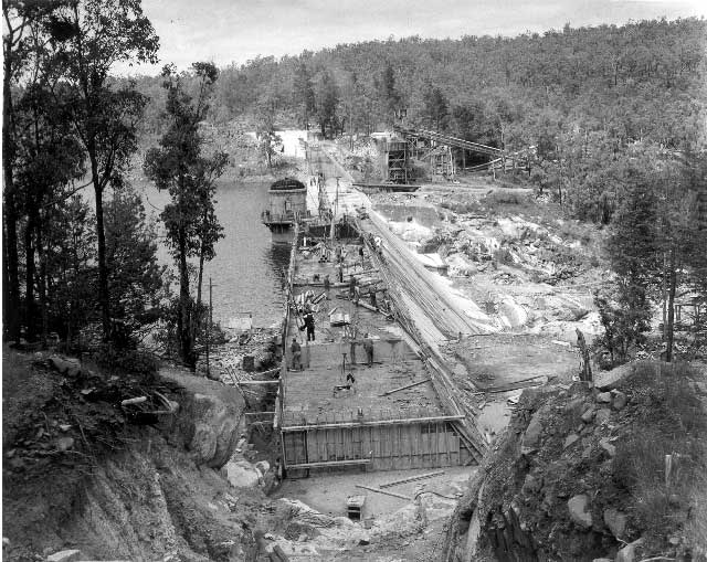 Mundaring Weir during construction - about 1902